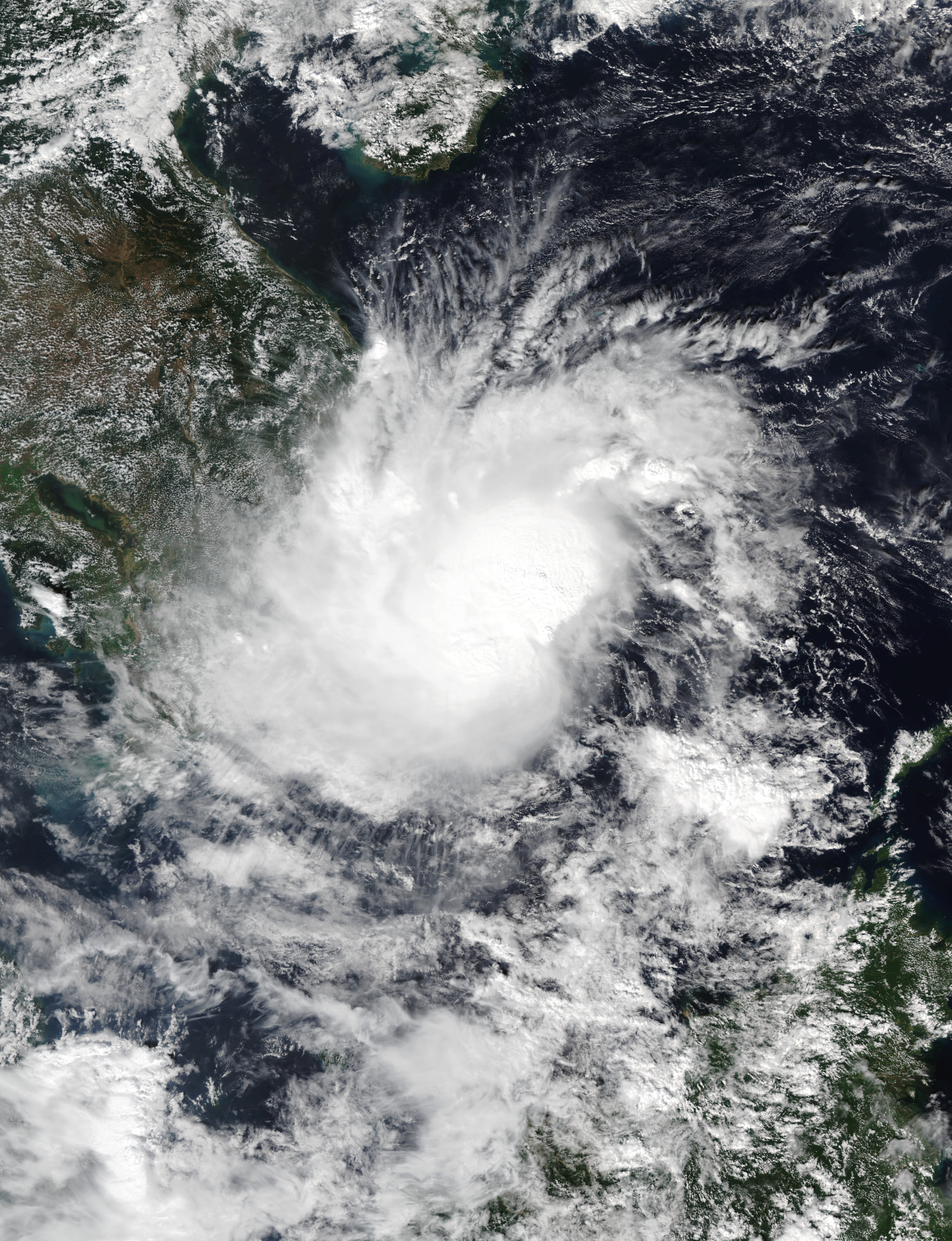 Tropical Storm Toraji (32W) nearing Vietnam on November 17, 2018